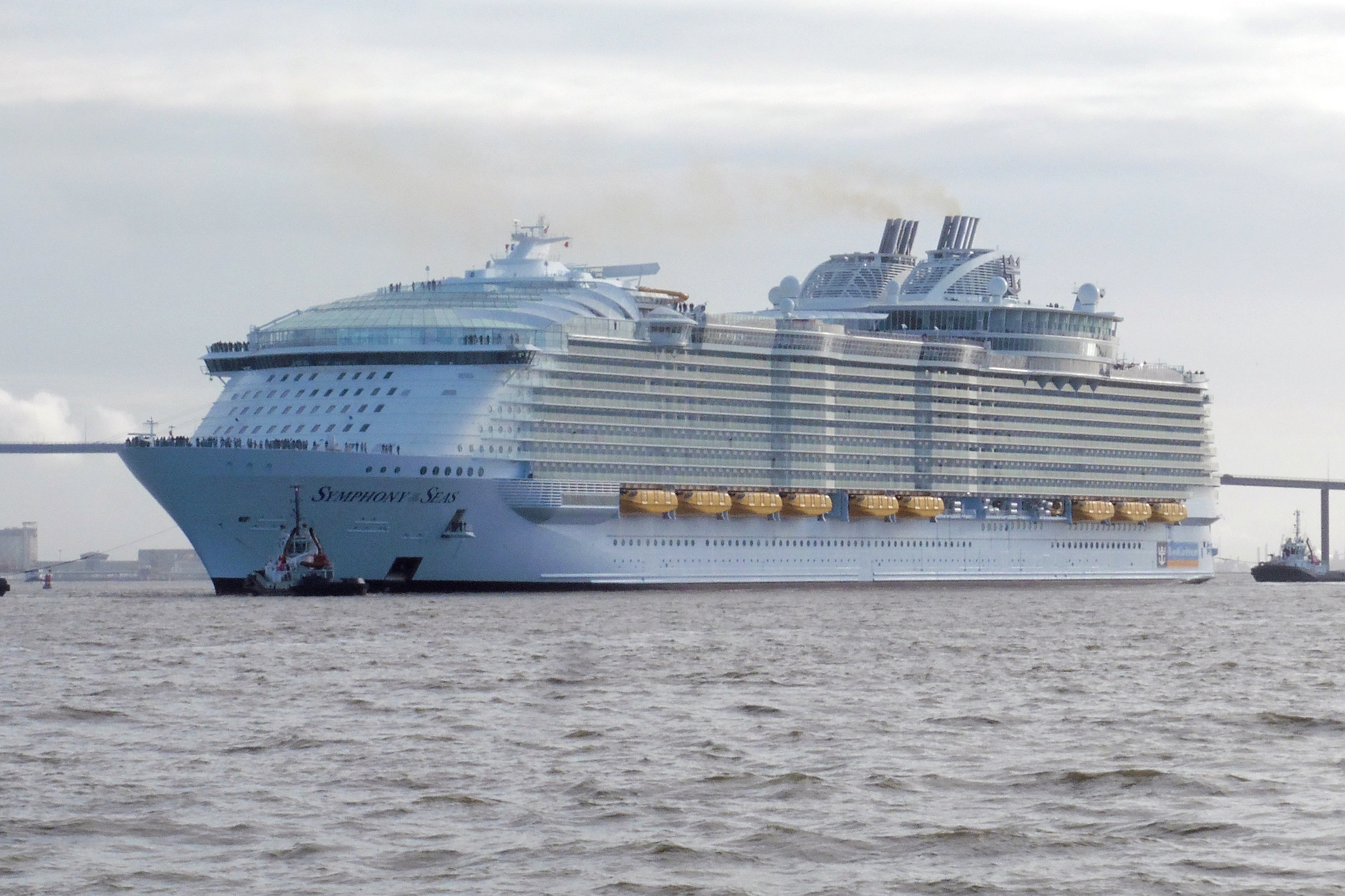 Symphony of the Seas leaving St Nazaire on March 24th 2018